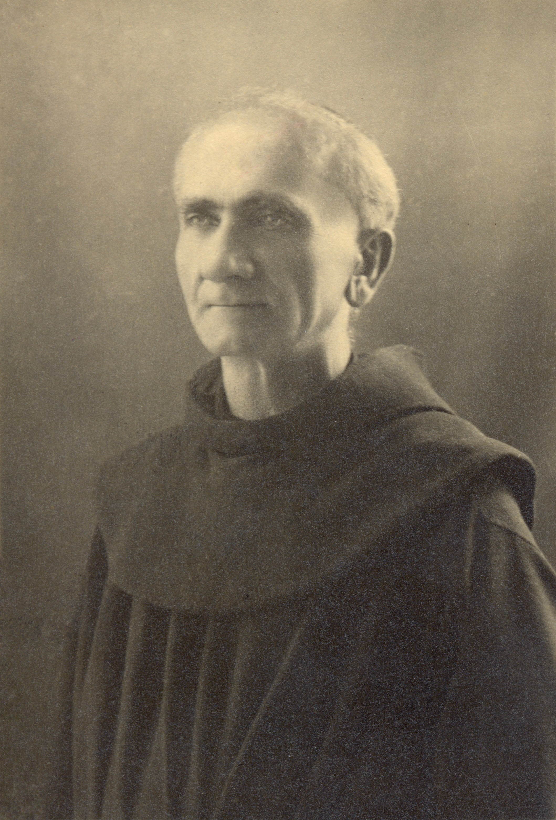 Anton Harapi portrait